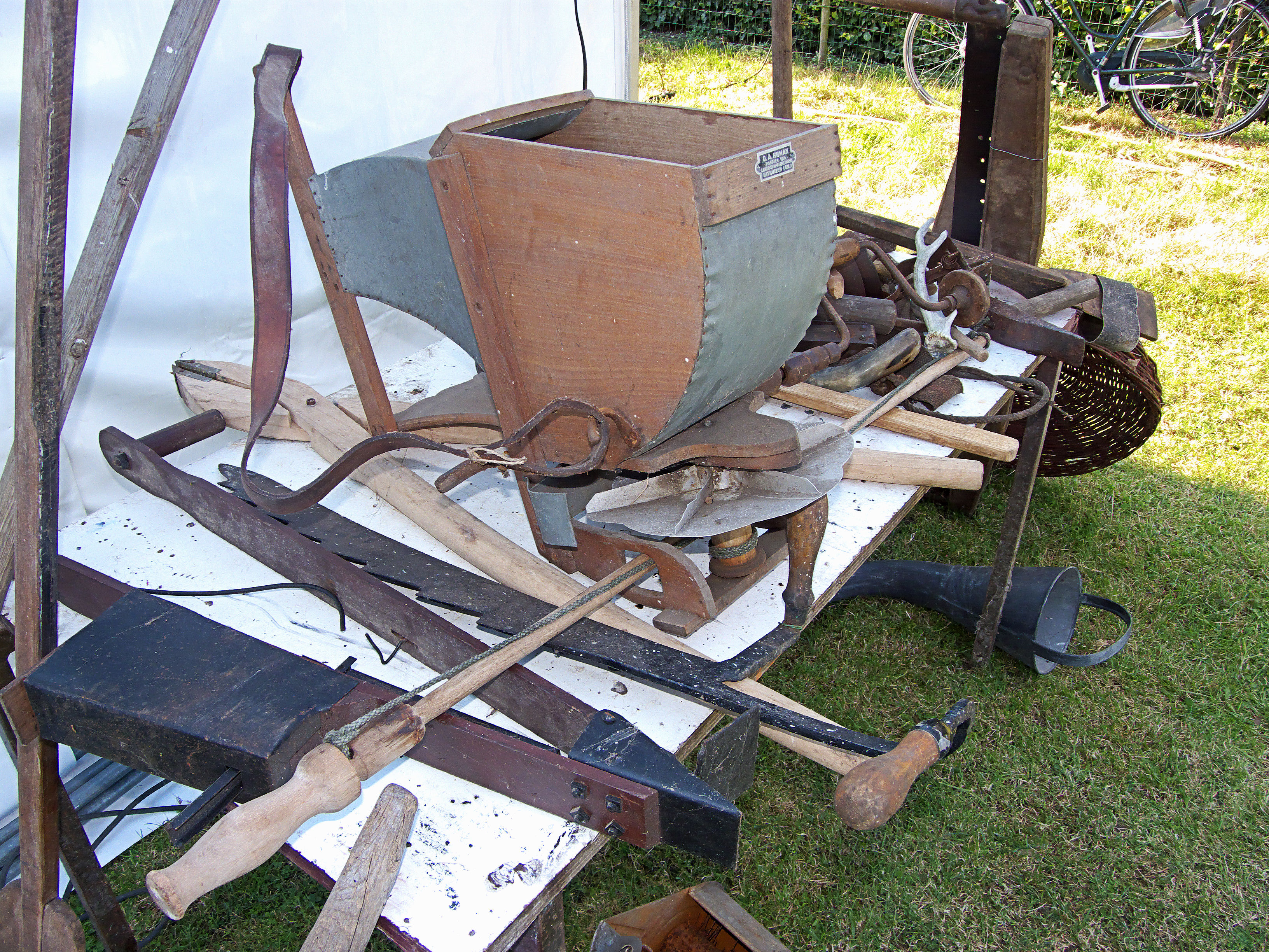 Seed fiddle, hand driven seed drill